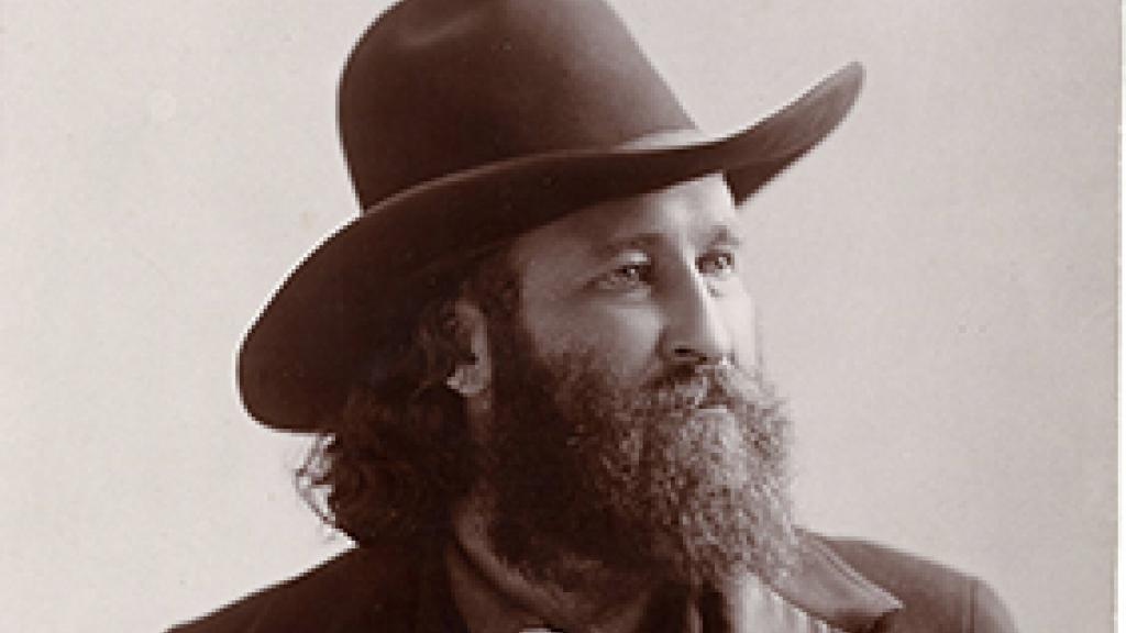 Edward Lawrence Schieffelin, an Indian scout and prospector, discovered silver in the Arizona Territory, which led to the founding of Tombstone, Arizona.